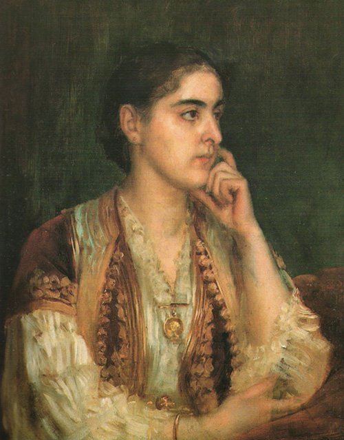 Portrait of Princess Stana of Montenegro (1868–1935)